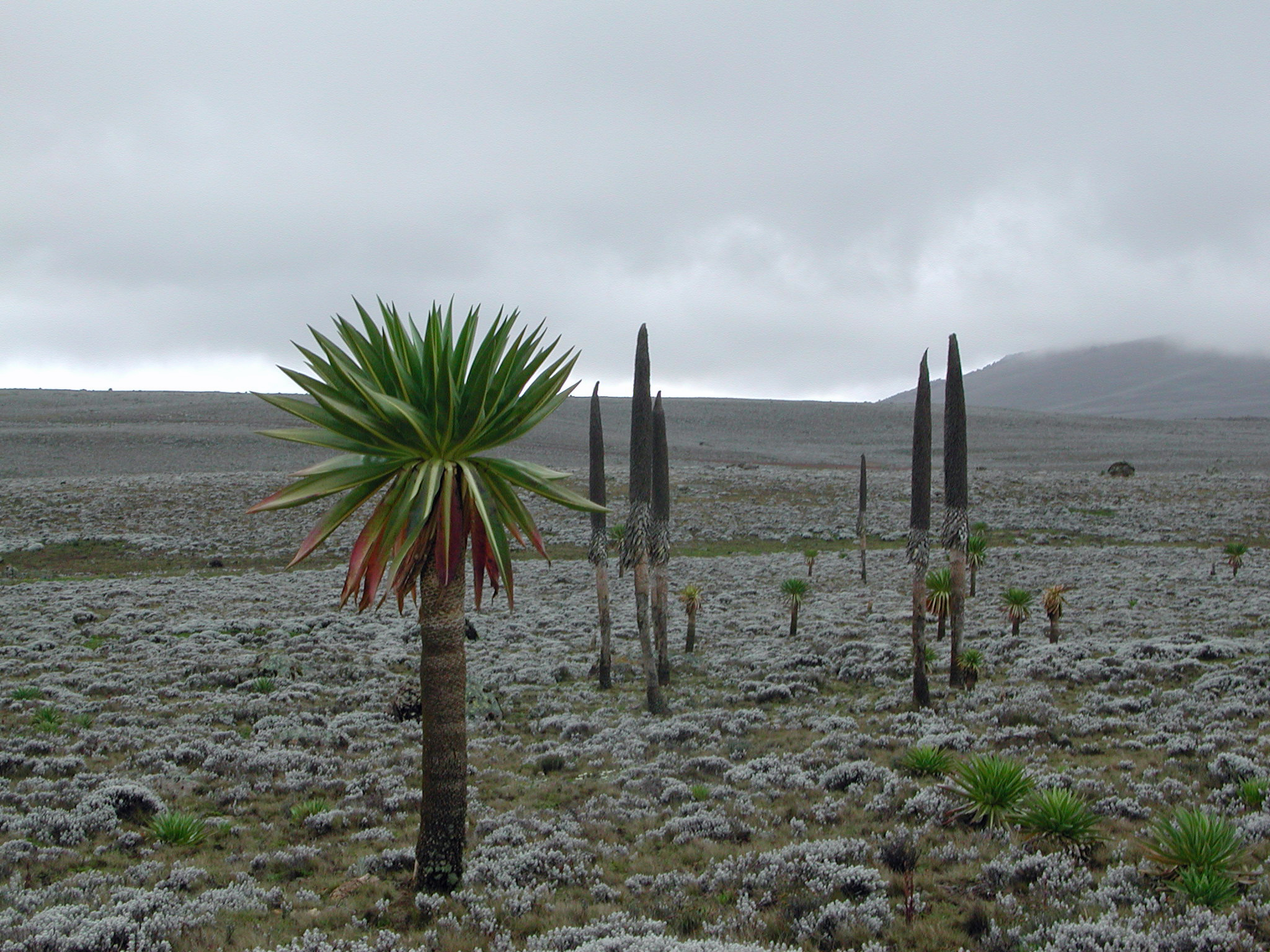 Giant Lobelia in Bale Mountain National Park, Ethiopia, 2003